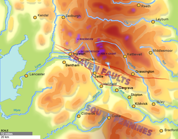 Topographic map of the North of England showing how the Aire Gap cuts through the Pennine mountain chain